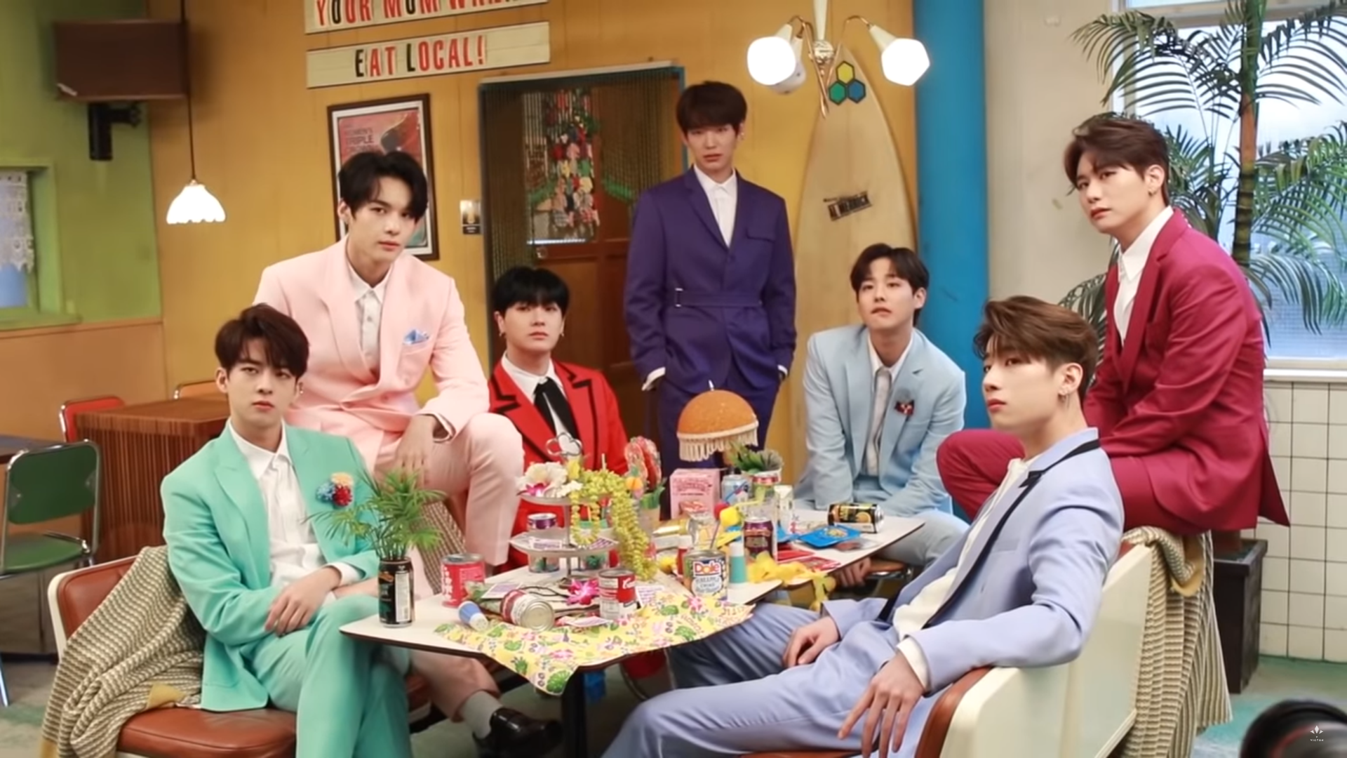 VICTON ‘Welcome to Wonderland’ Making VCR